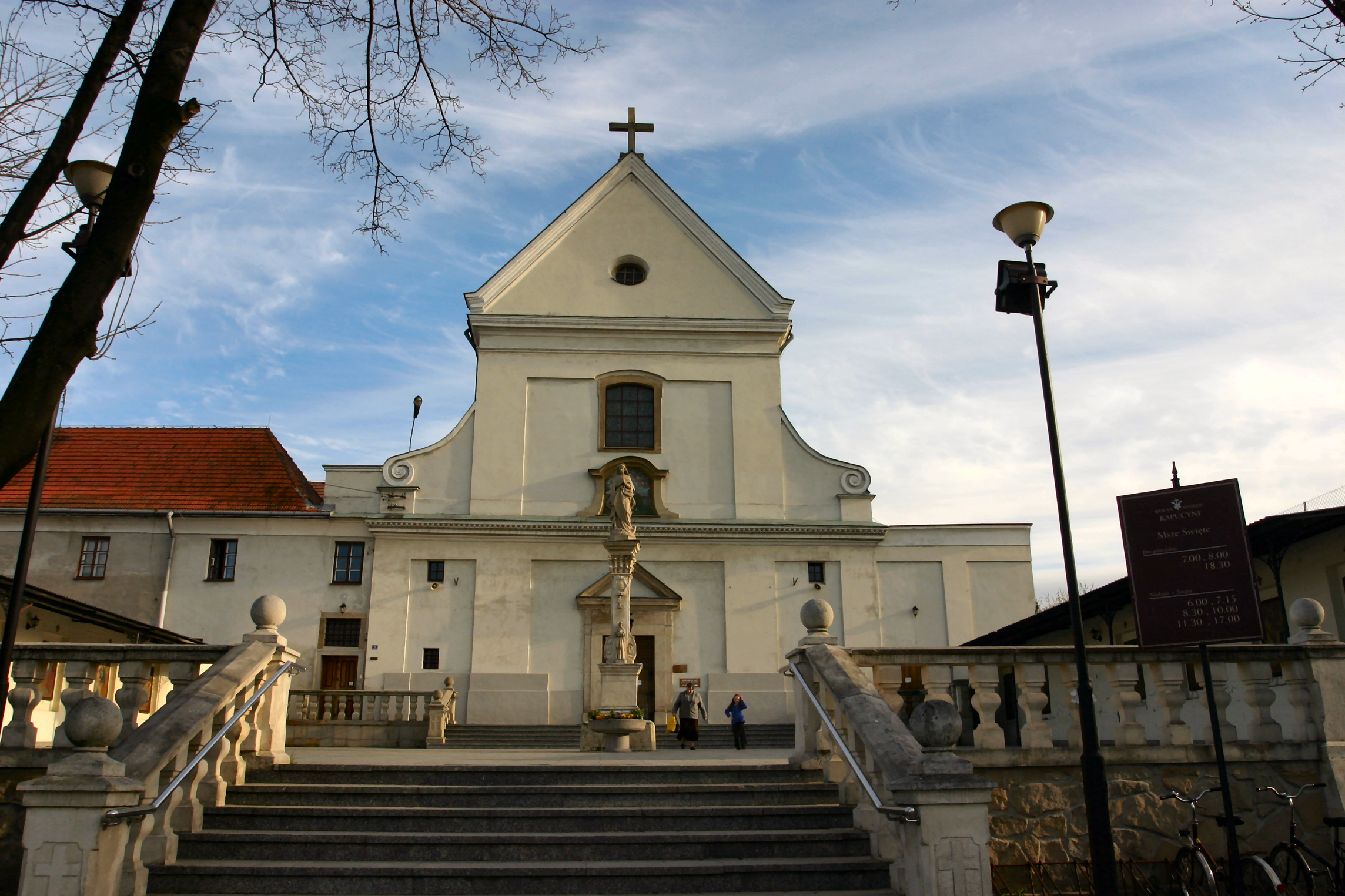 St. Anthony's Church in Sędziszów Małopolski, Poland